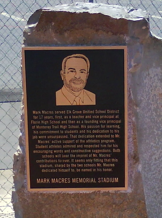 Mark Macres Memorial Stadium marker